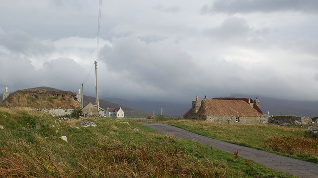 Howmore black houses. Both derelict and renovated black houses at Howmore, South Uist.